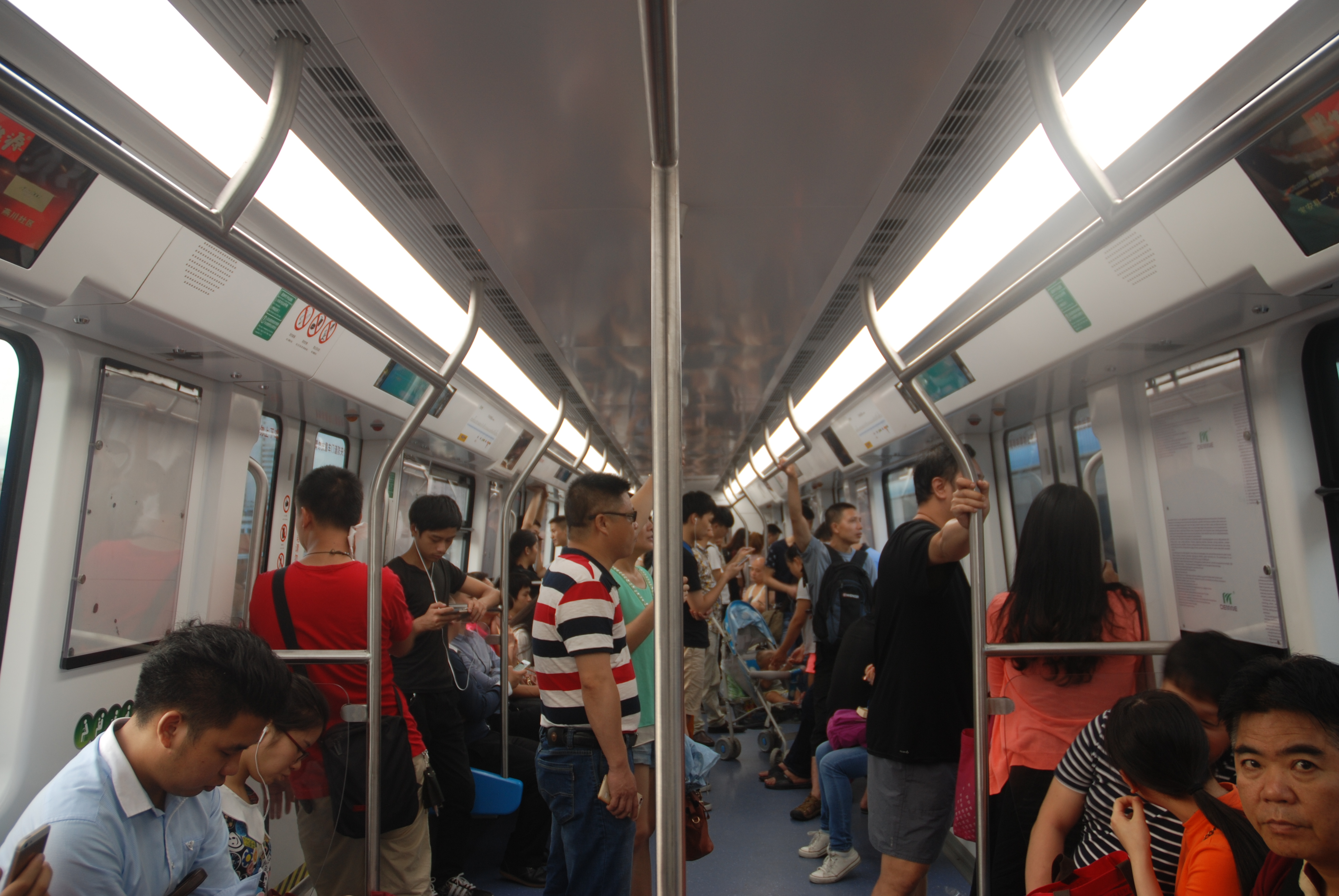 Shenzhen Metro CSR Nanjing Puzhen Type B Rolling Stock Cabin (Car 03476)